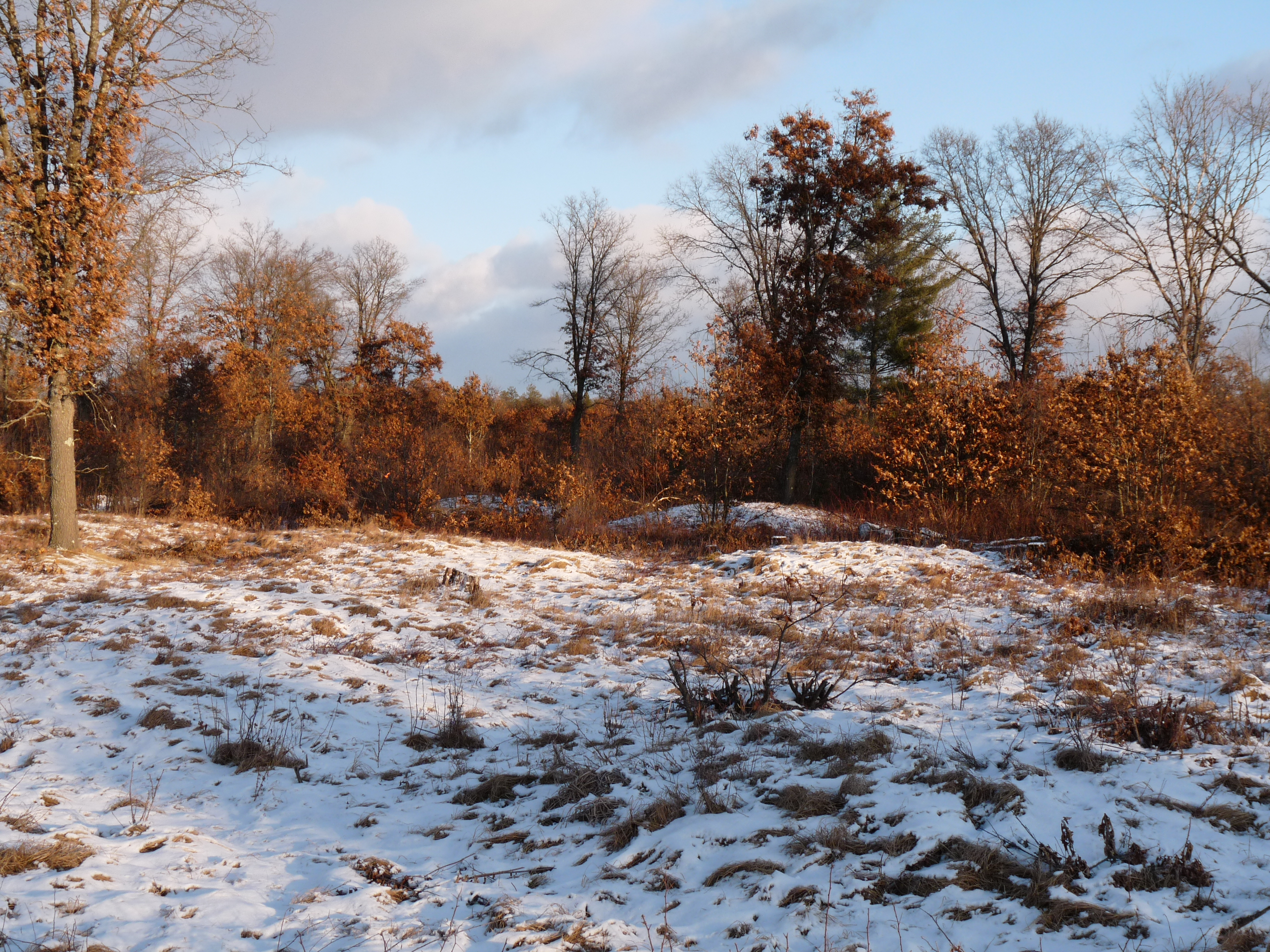 Cranberry Creek Archaeological District, near New Miner Wisconsin, contains hundreds of these low conical mounds, constructed by Native Americans between 100 and 800 CE.